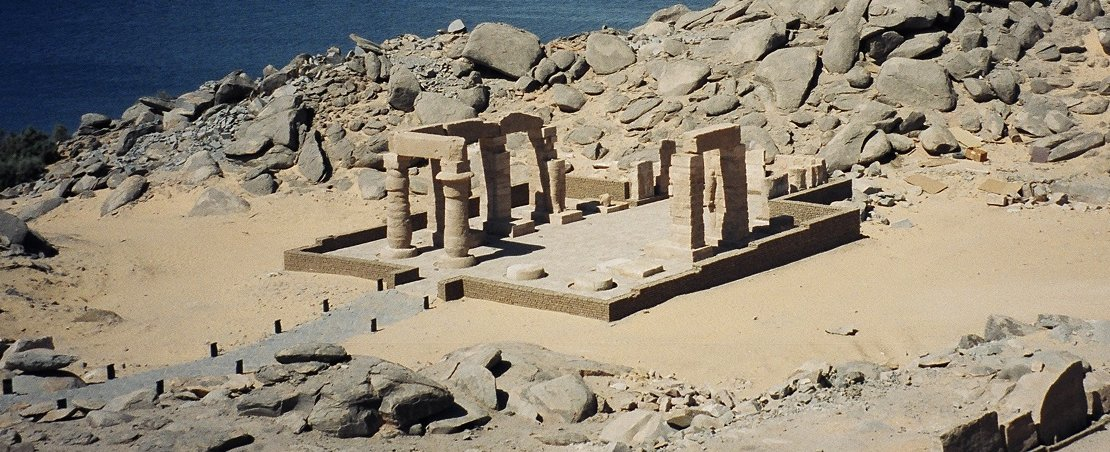 Gerf Hussein as reconstructed at New Kalabsha